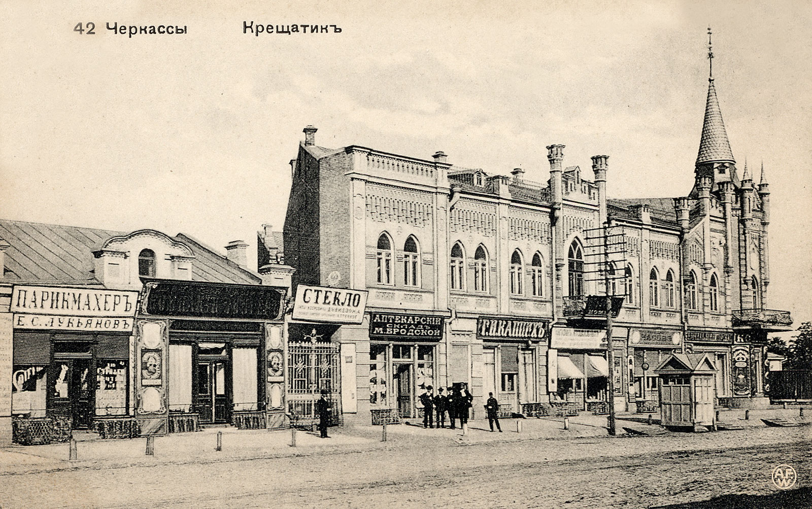 Cherkasy, Ukraine around 1910